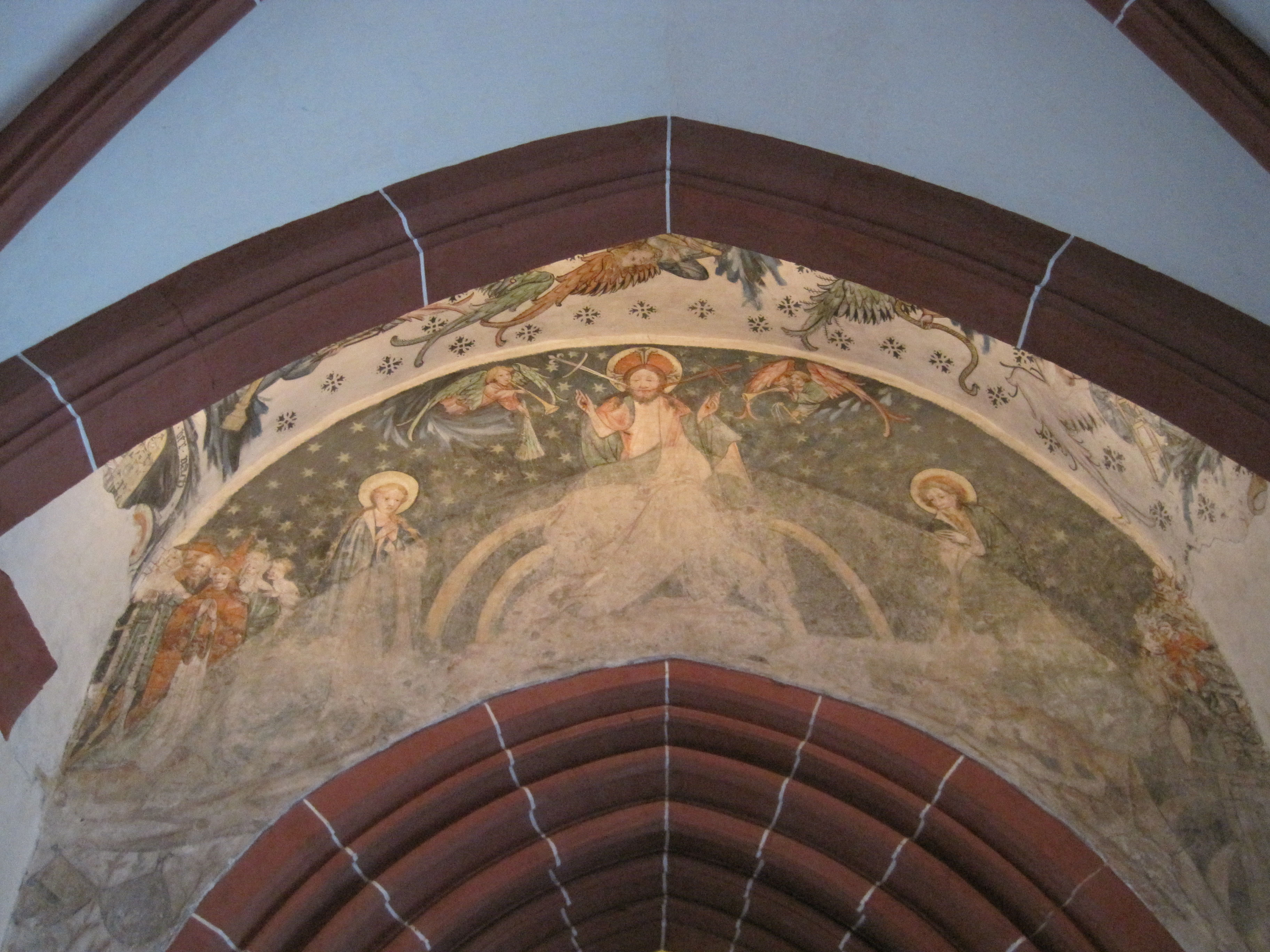 Last Judgment at St. Peter’s and Paul’s parish church in Eltville, Germany